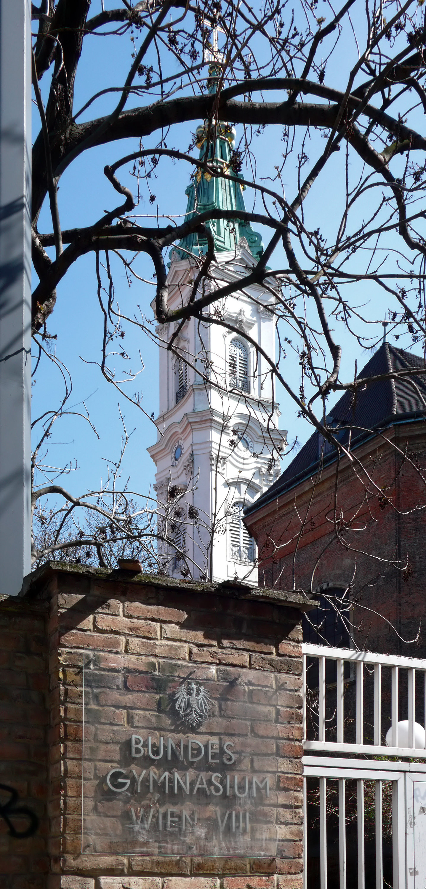 Bundesgymnasium Wien 8 in Vienna Josefstadt